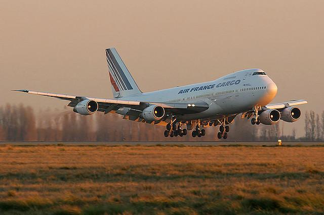 Air France Boeing 747-200SF (Special Freighter) F-GCBF